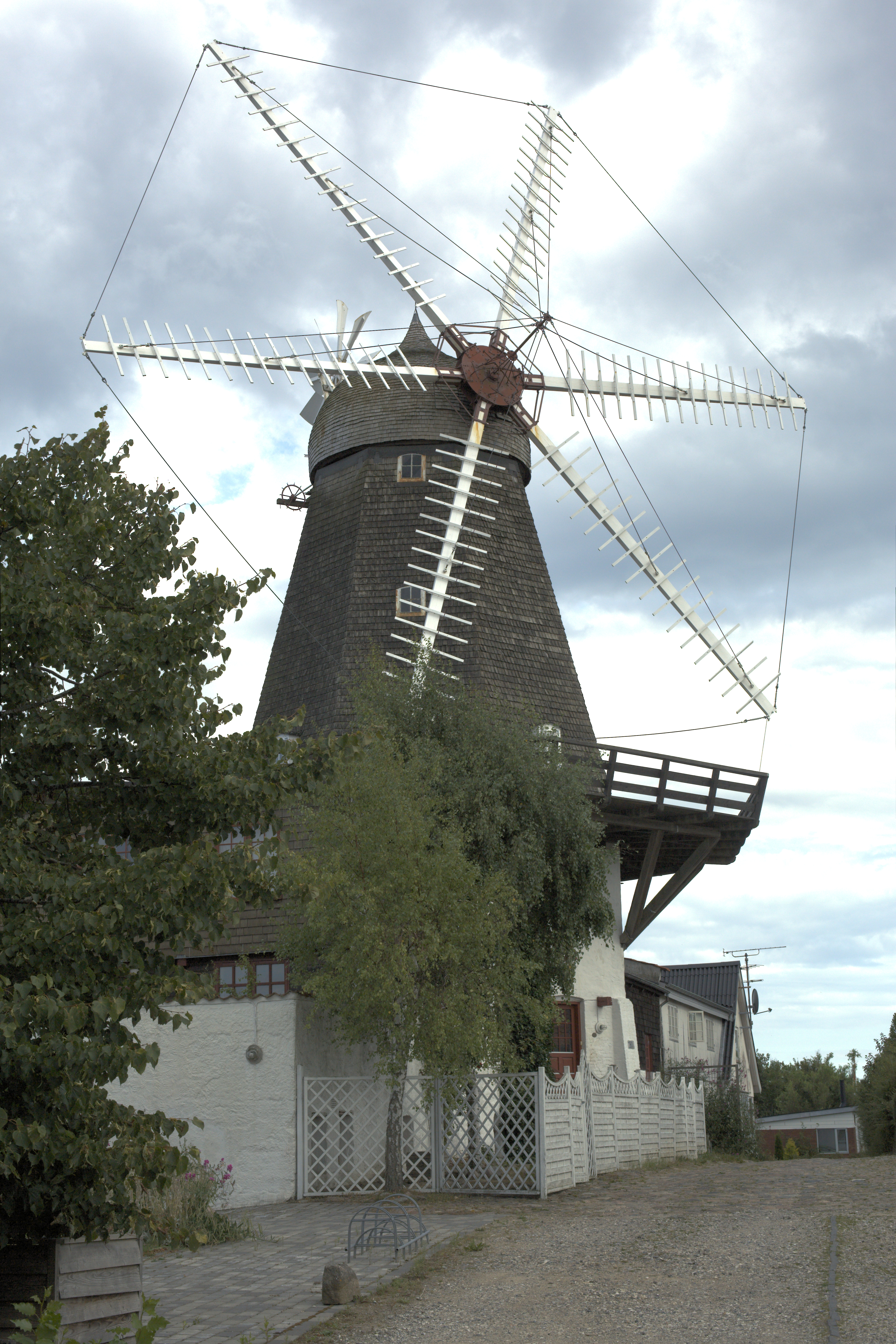 Segalt Mill near Aarhus